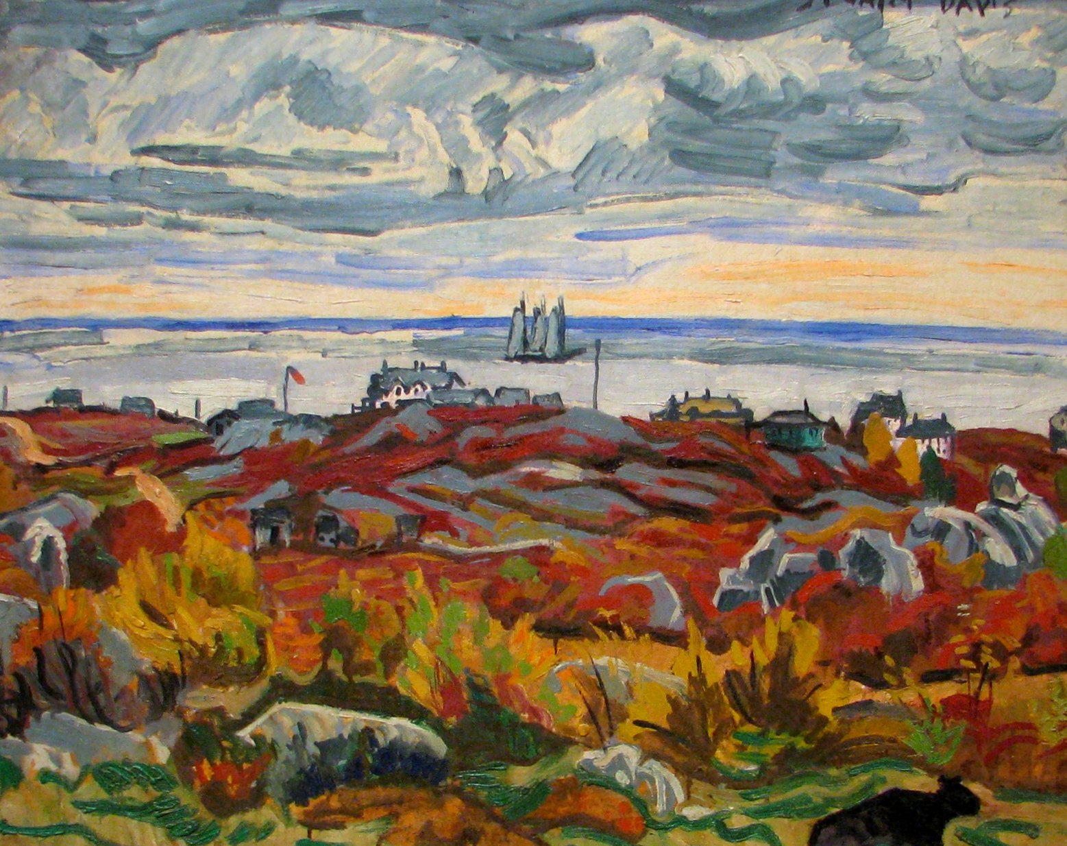 Gloucester Landscape